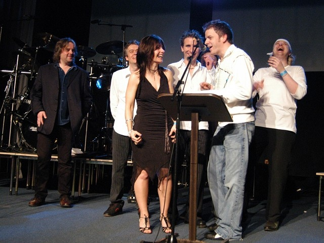 Personal photo, taken with consent of the artist. Loaded from WP_en